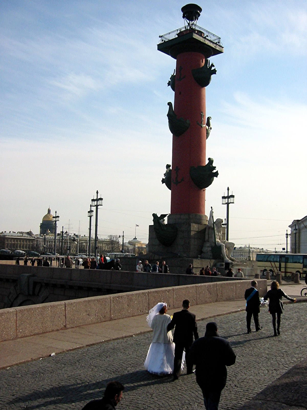 lighthouse wedding